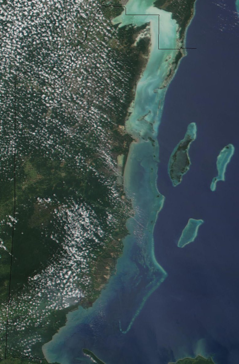 Satellite image of Belize on March 31, 2002